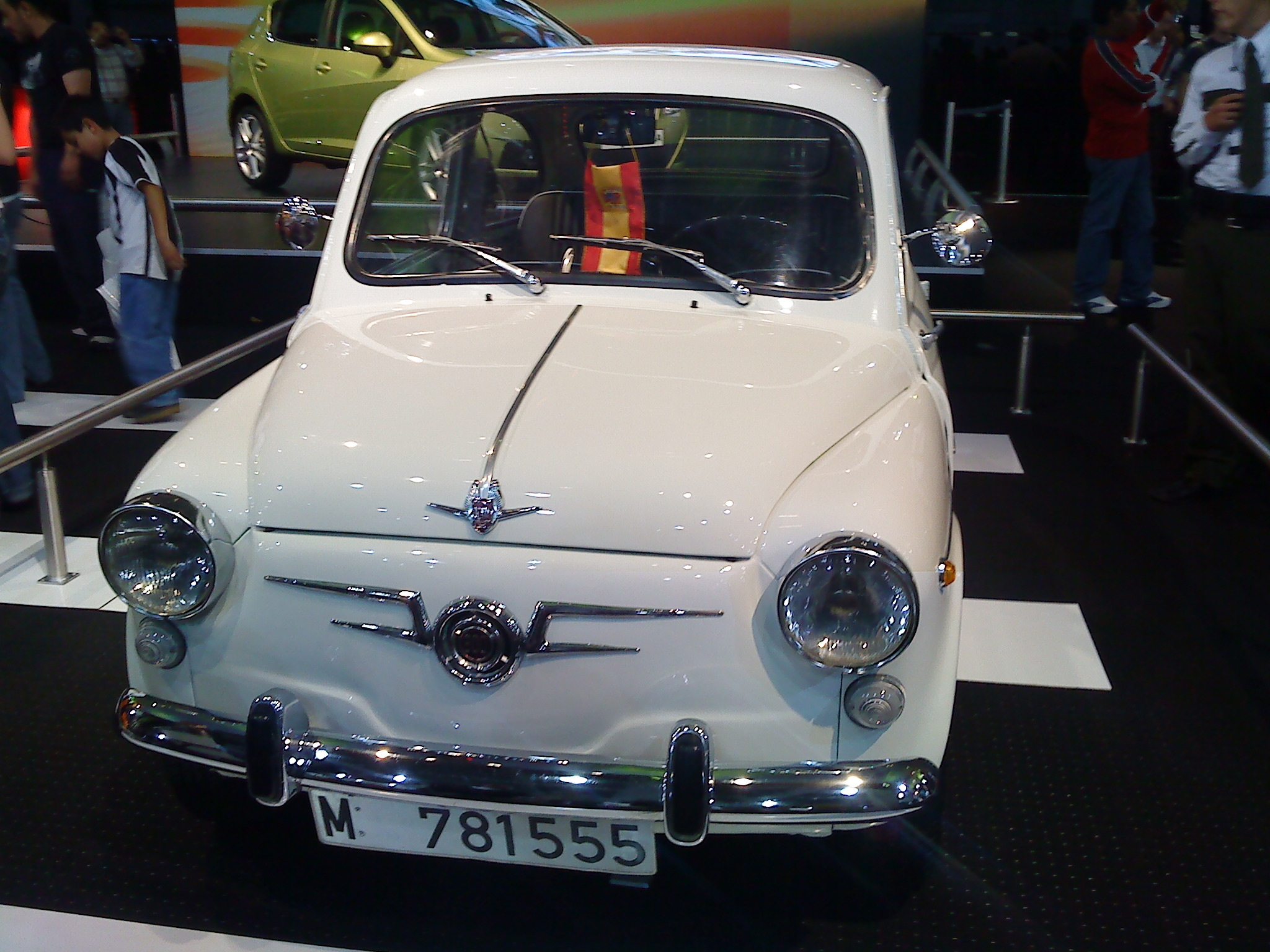 SEAT 600 at the 2008 SIAM.